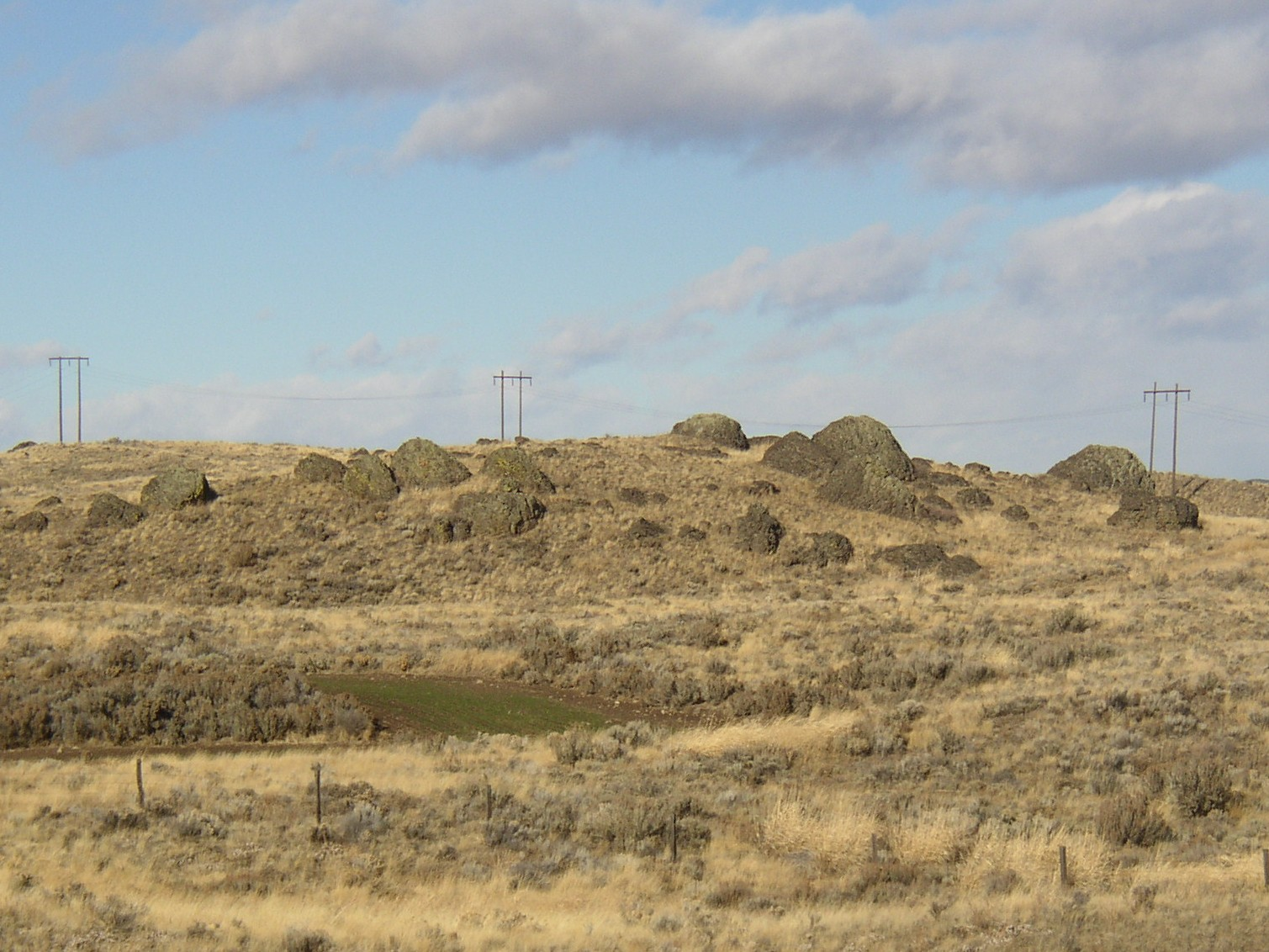 Erratics on the terminal morraine of the Okanagon Lobe of the Cordilleran Glacier on the Waterville Plateau of Washington, USA. Photo taken by uploader in November 2006. All rights released. Williamborg 19:56, 12 November 2006 (UTC)